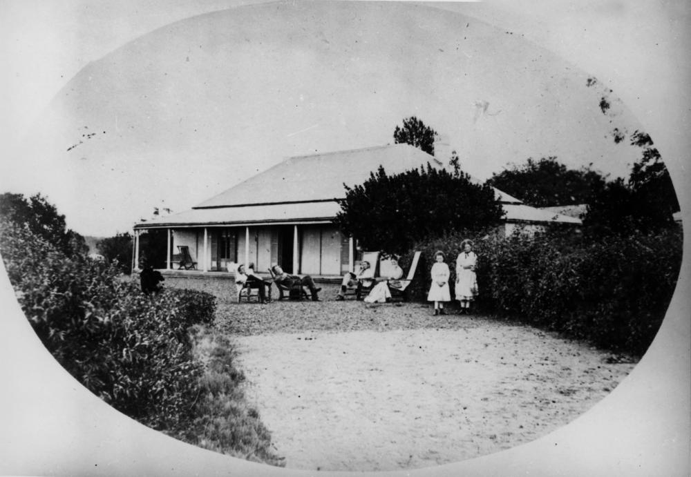 Homestead at Canning Downs Station, ca. 1875 At the time of this photograph Canning Downs was probably owned by politician John D. Macansh, who purchased the property from F. C. Wildash in 1875. (Description supplied with photograph).